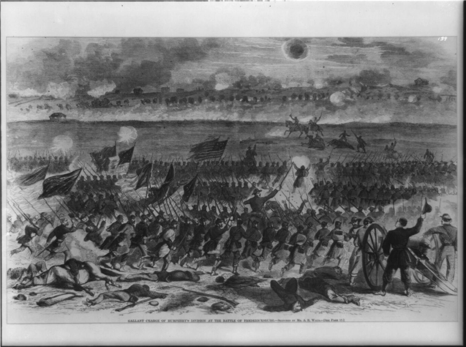 Gallant Charge of Humphrey's Division at the Battle of Fredericksburg by Alfred R. Waud. Wood engraving ; 35.0 x 52.0 cm., Published in: Harper's Weekly, January 10, 1863, p. 24-25.